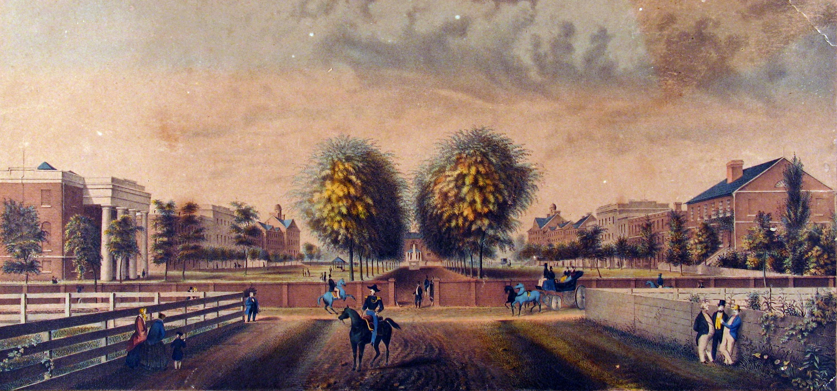 View of the South Carolina College Horseshoe in 1850 looking from College Street